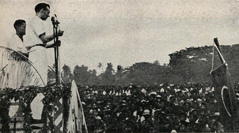 Dutch trade unionist Blokzijl speaking at SOBSI congress, 1947